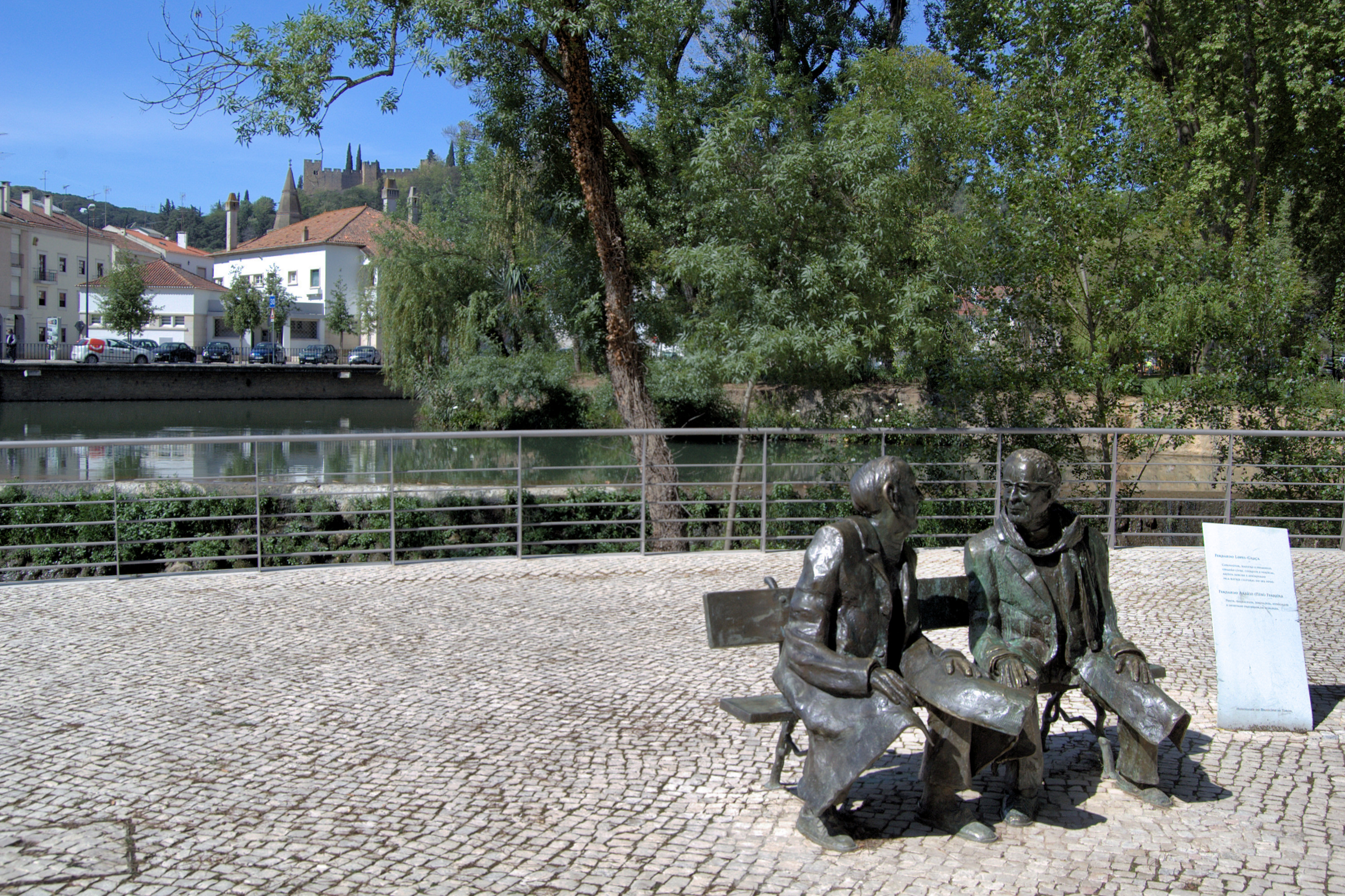 Statue of Fernando Lopes Graça in Tomar